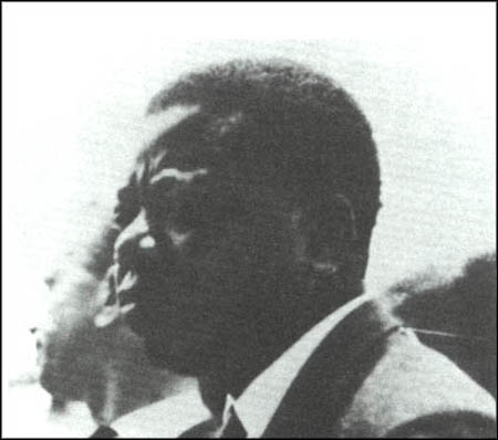 Moïse Kapenda Tshombe, Congolese politician.